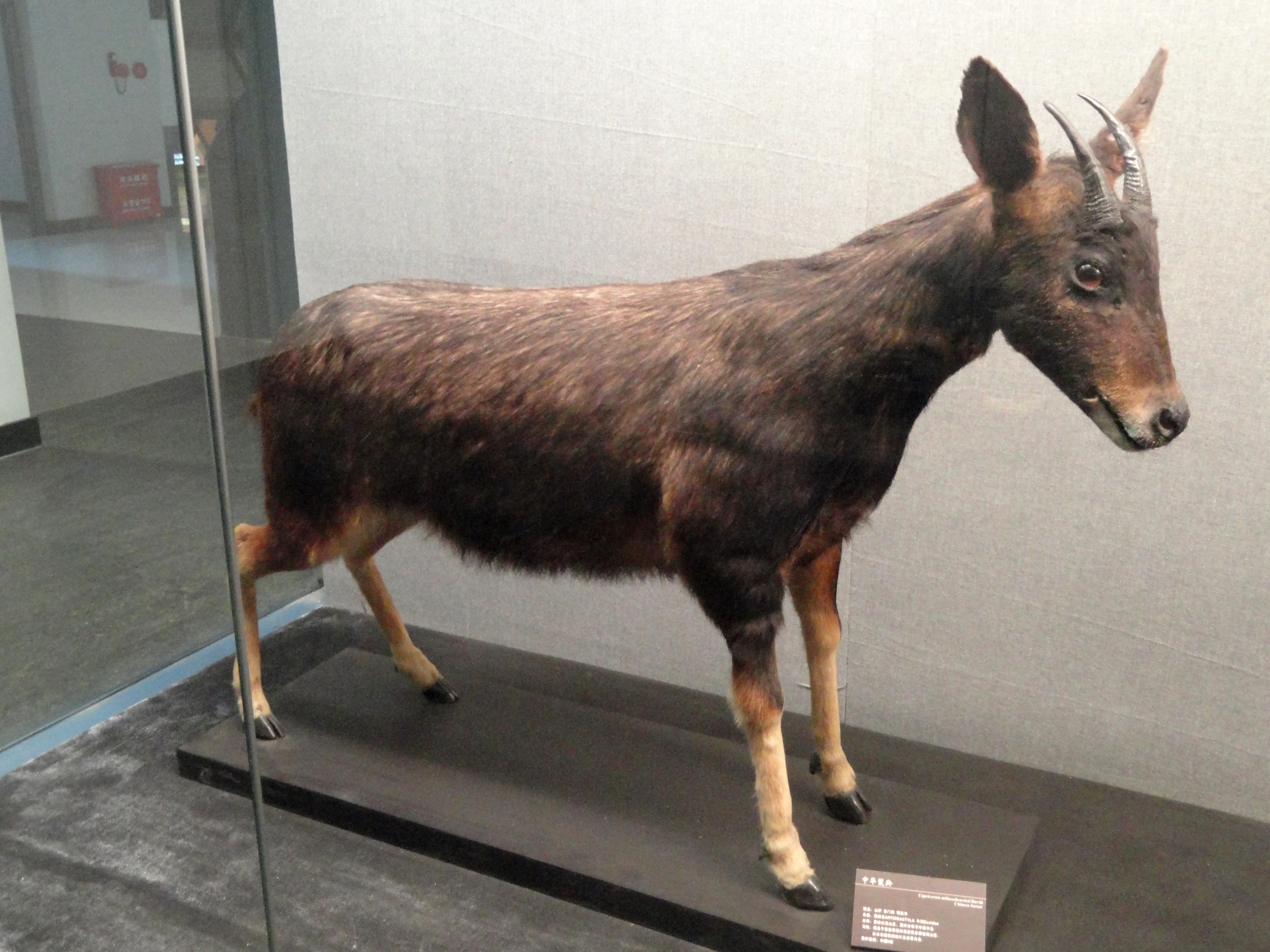 Taxidermy exhibit in the Kunming Natural History Museum of Zoology (昆明动物博物馆), Kunming, Yunnan, China.